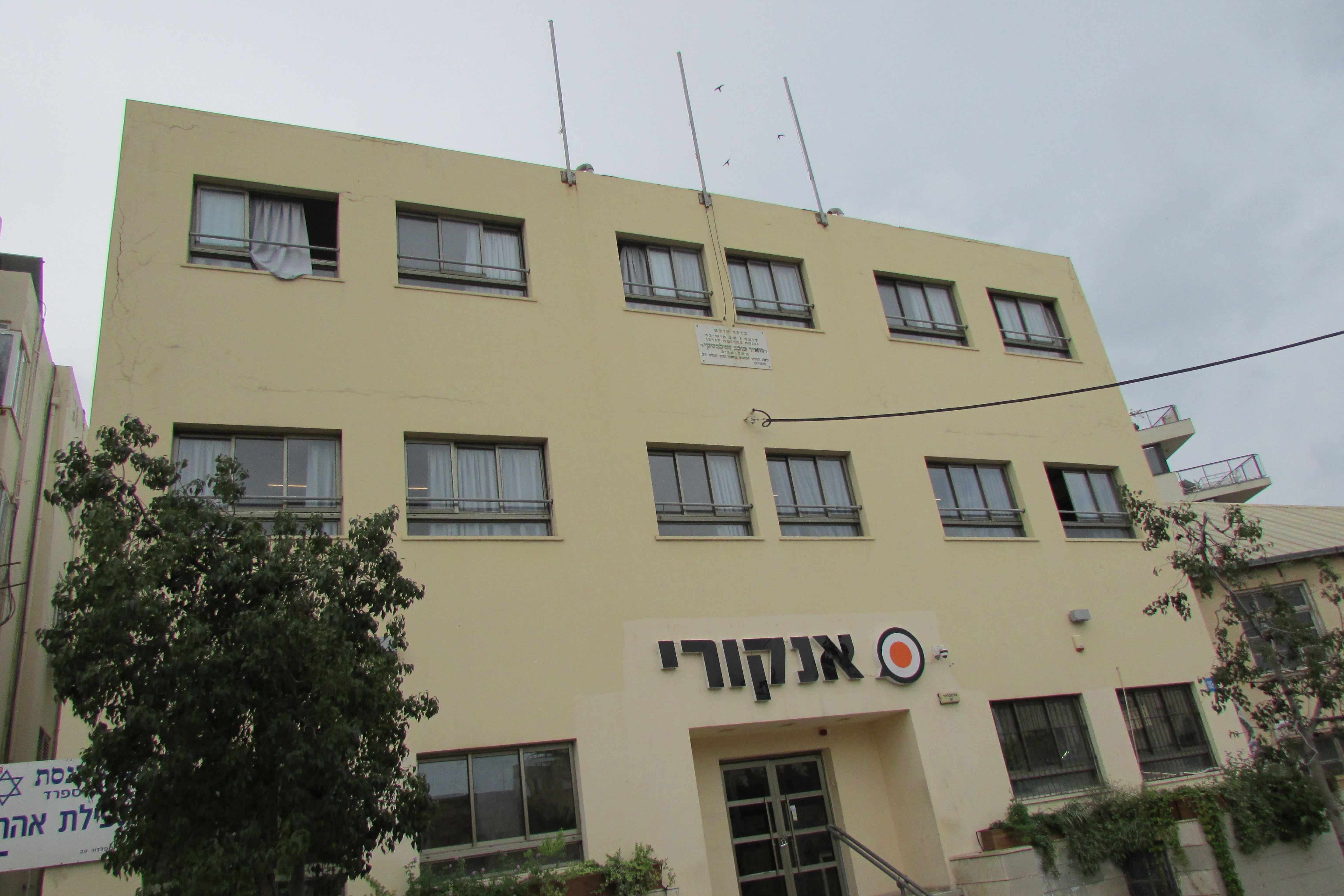 Buiding of Yeshivat Tel-Aviv, now Anchory school